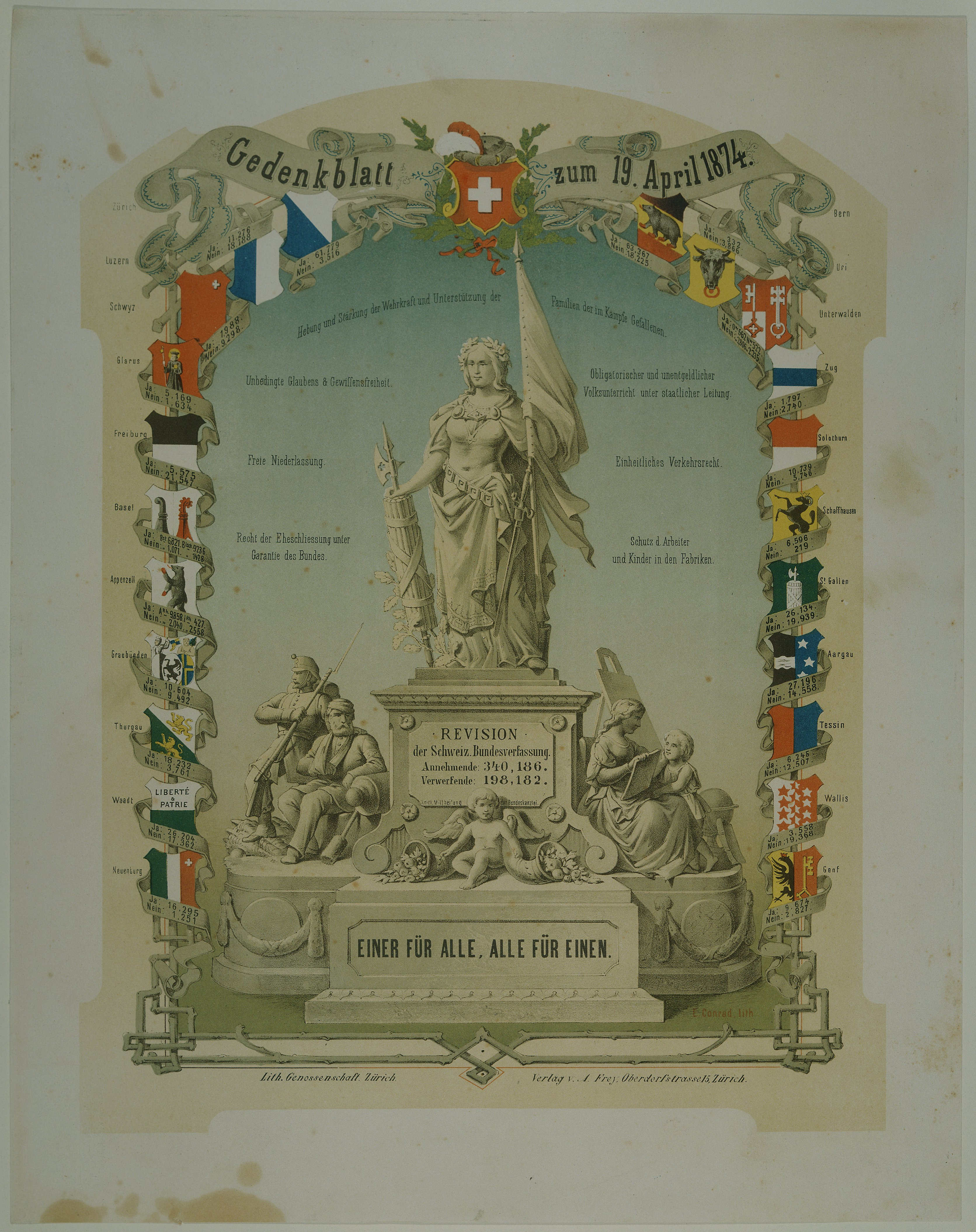 Memorial page to mark the revision of the federal constitution of Switzerland. Lithography on paper, 55.2 cm × 44.4 cm